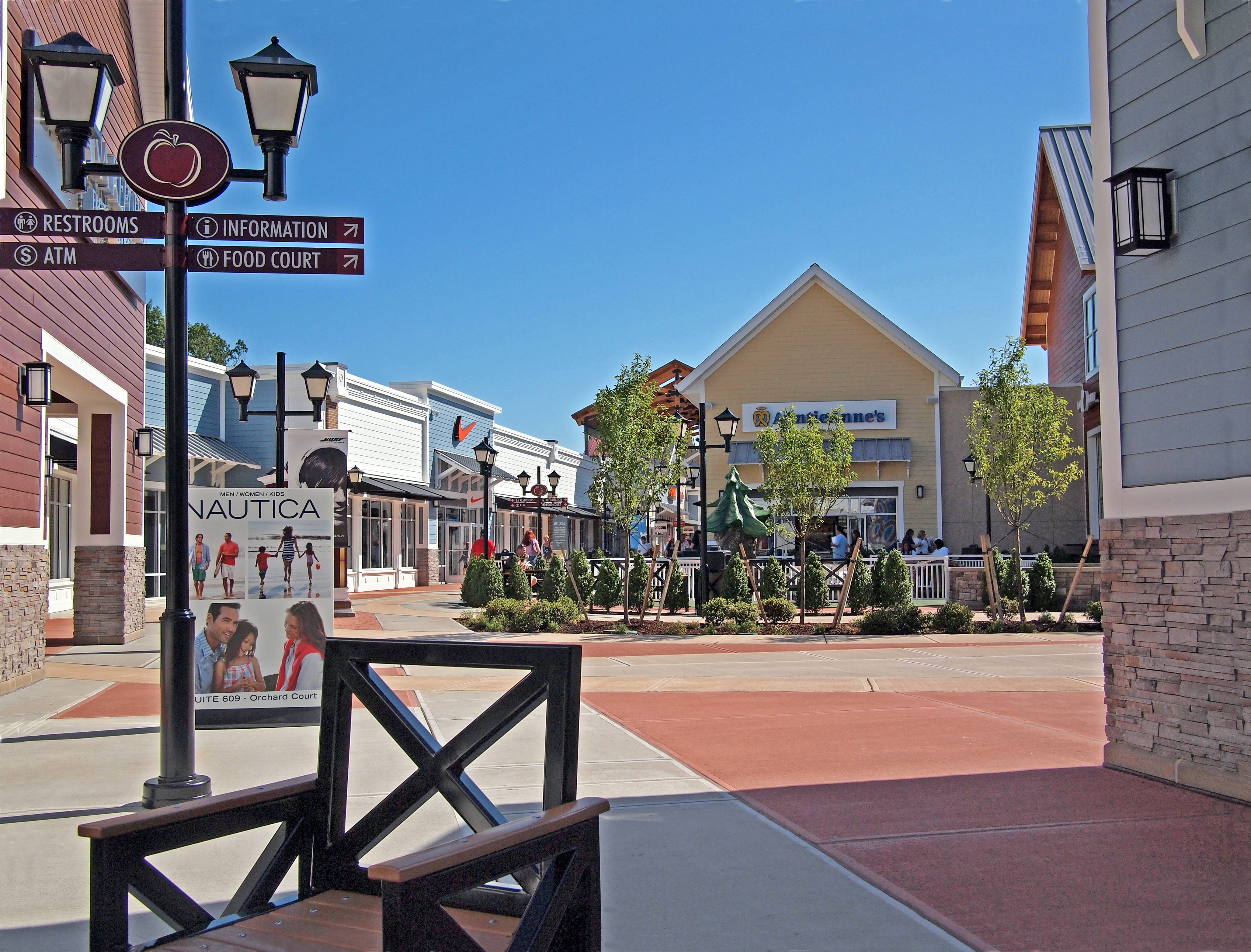 Merrimack, New Hampshire